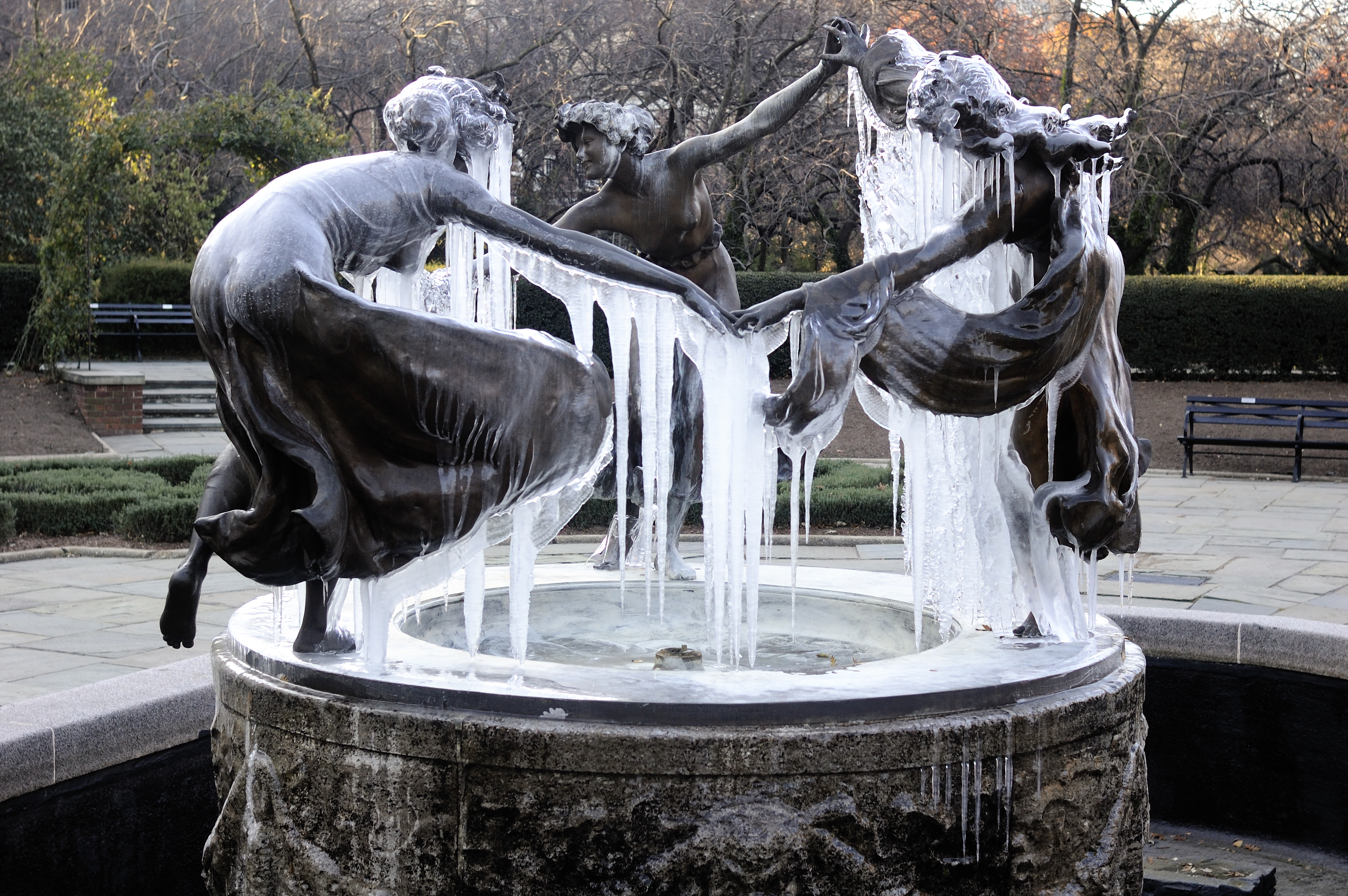 "Untermeyer fountain" aka "Three Dancing Maidens", by Walter Schott. Central Park, NYC